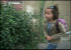 Video Effect Box Blur